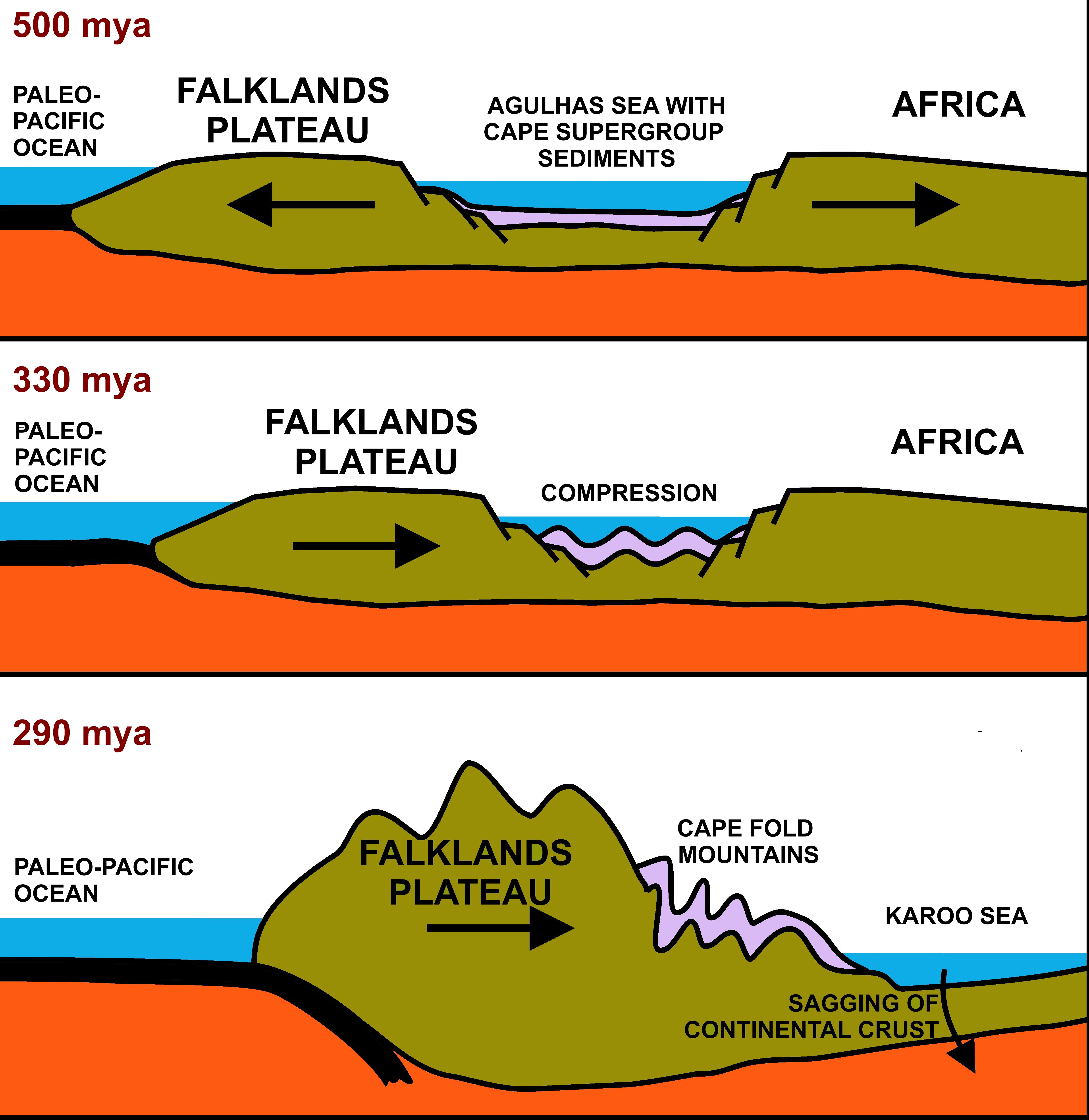 Soon after the formation of Gondwana a rift appeared at the southern border of Africa, this filled with sediment which became the Cape Supergroup. With closure of this rift these sediments were folded into the Cape Fold Belt, with a massive range of mountains behind them, called the Falklands Plateau.